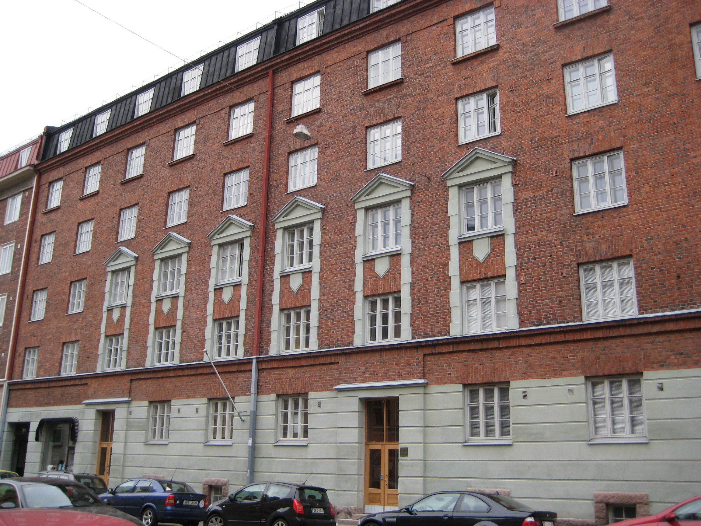 Runeberginkatu 19, Etu-Töölö, Helsinki, Finland.